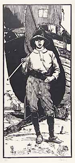 Jeune Pêcheur à Berck, woodcut, first state, 1/10, signed and dated, dim.: 51 x 23 cm.